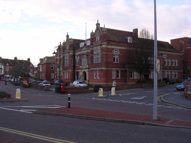 Bexhill Town Hall